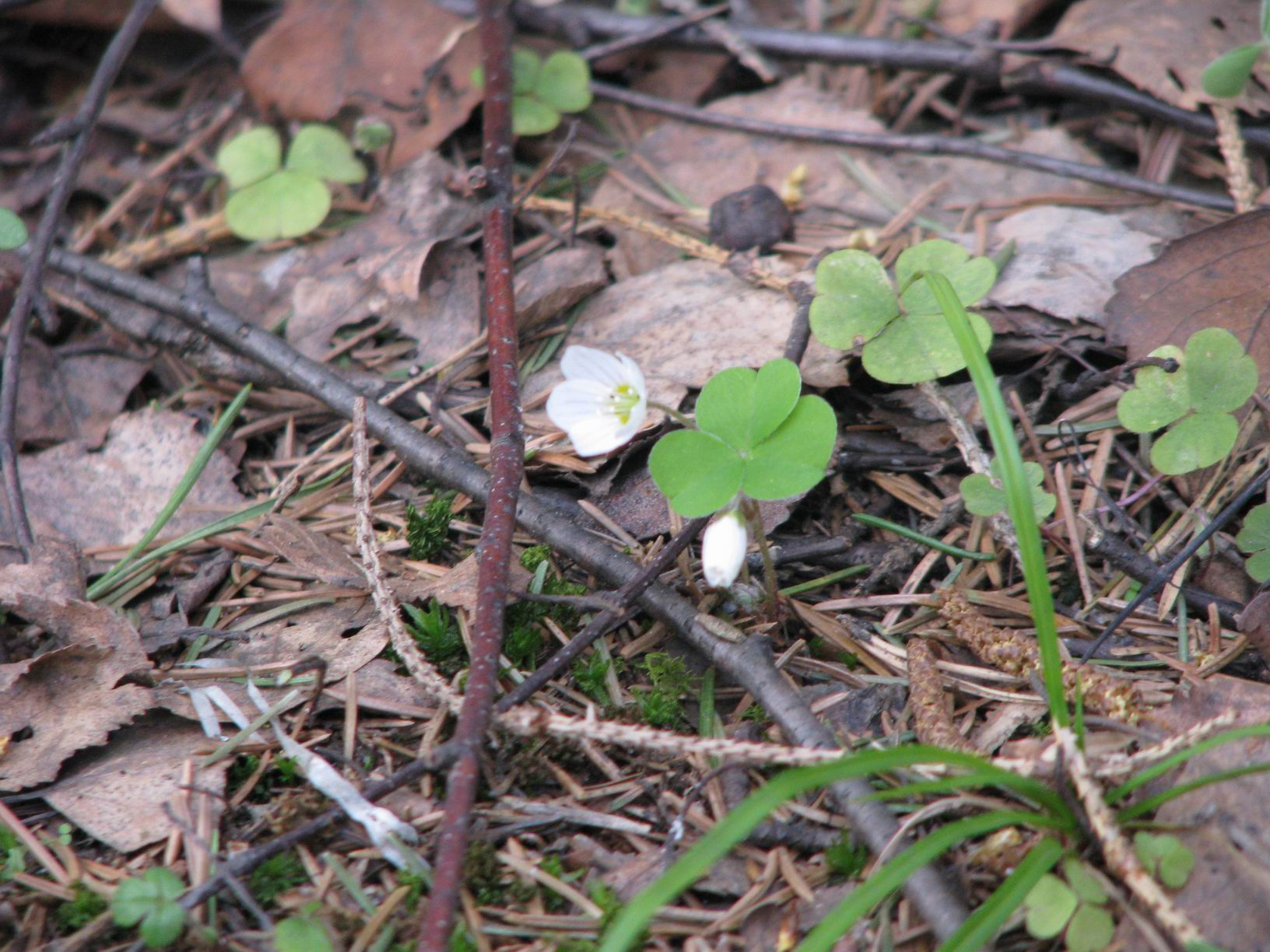 Oxalis acetosella. Savinsky District of Ivanovo Oblast, Russia